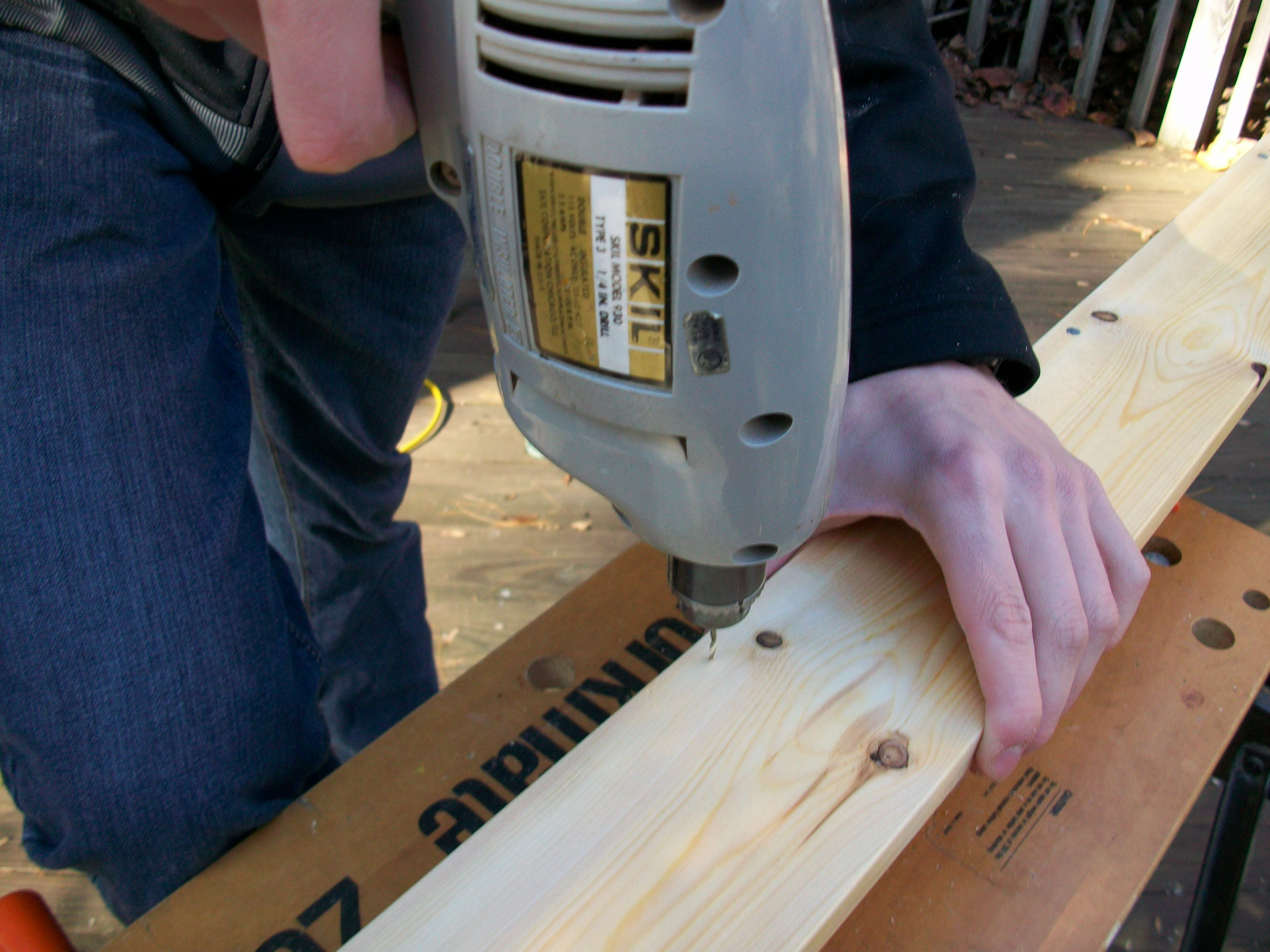 Drilling pilot holes to hammer nails and therefore construct the viscosity experiment apparatus.